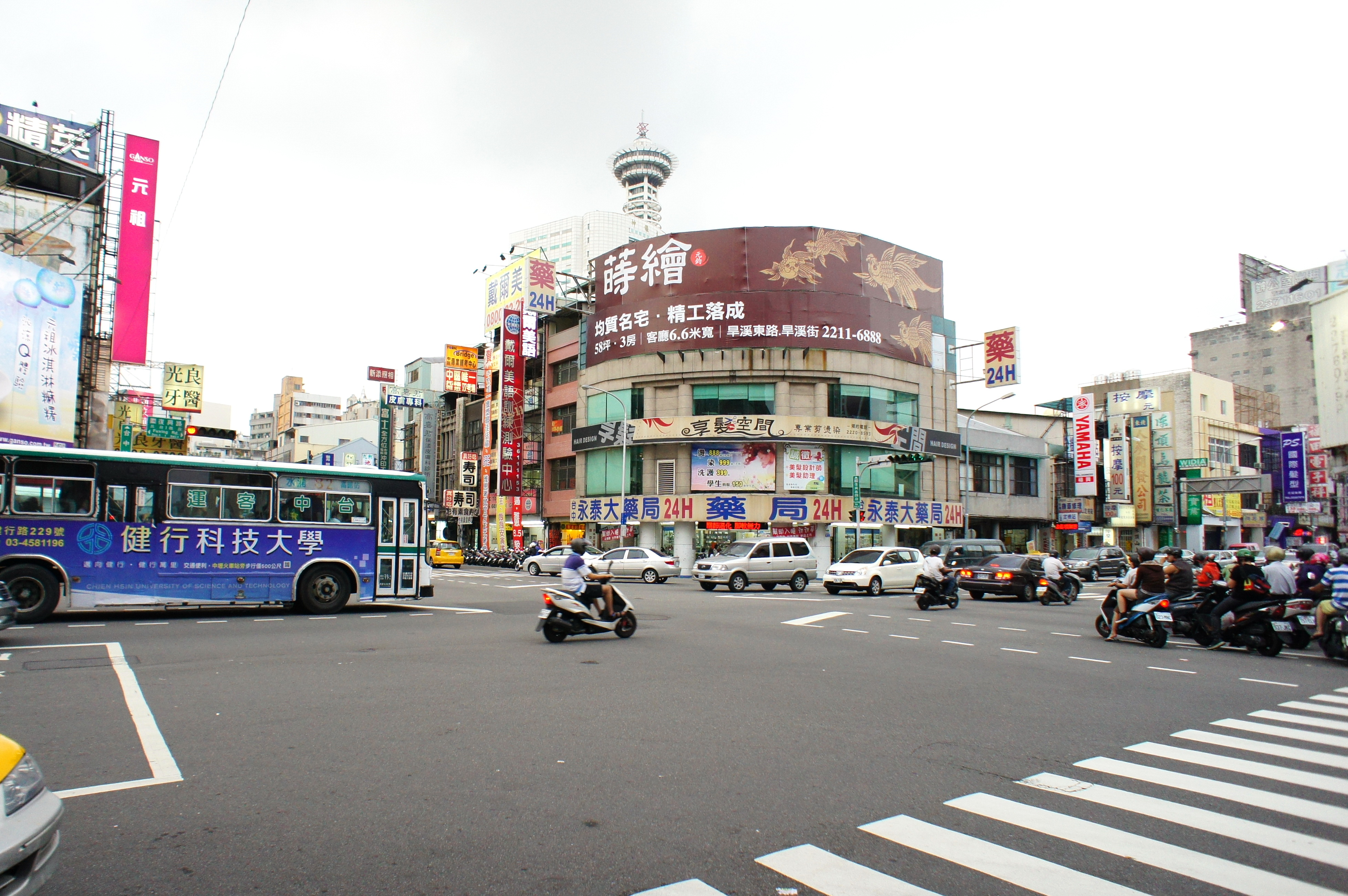 Interaction of Sec. 3, Fuxing Road and Taichung Road, Taichung City, Taiwan.